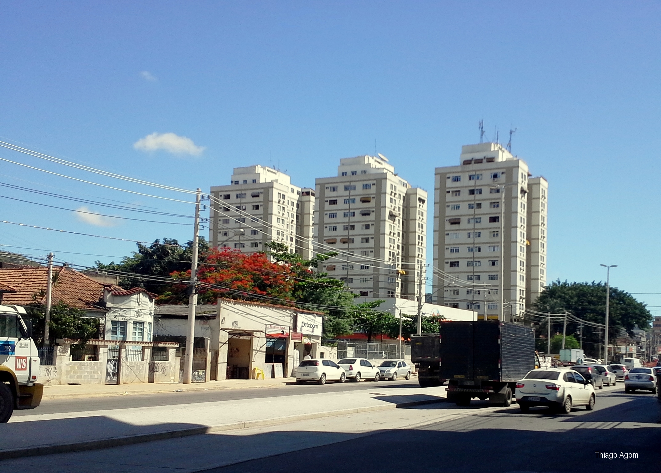 Cândido Benício Street, Rio de Janeiro